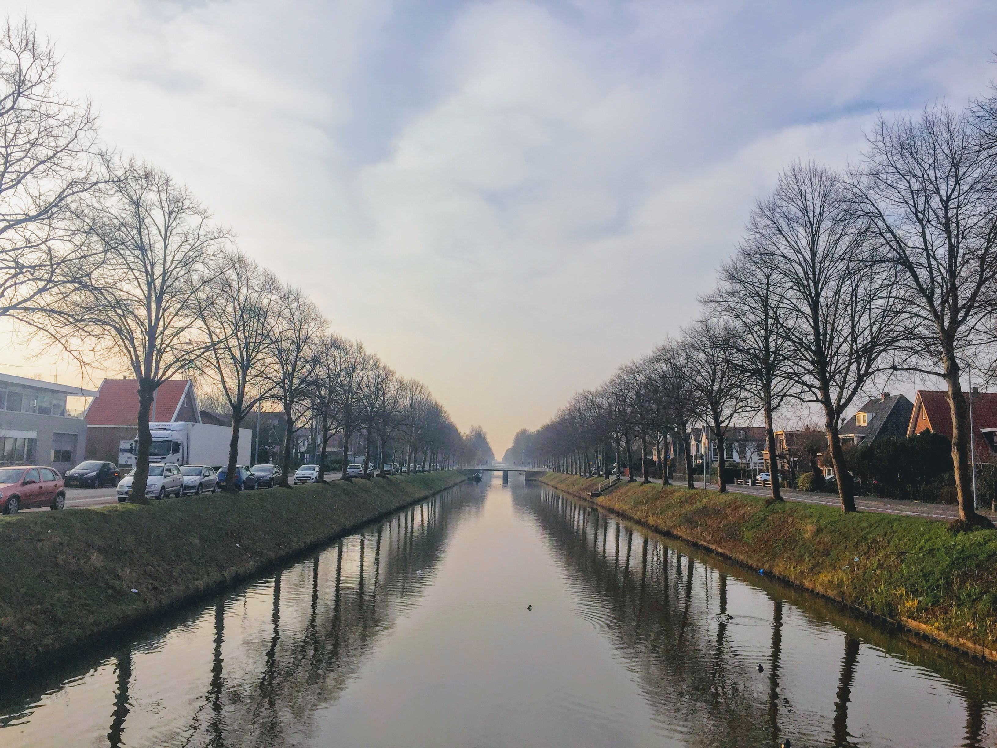 Nieuw-Vennep Hoofdweg brug De Symfonie winkelcentrum